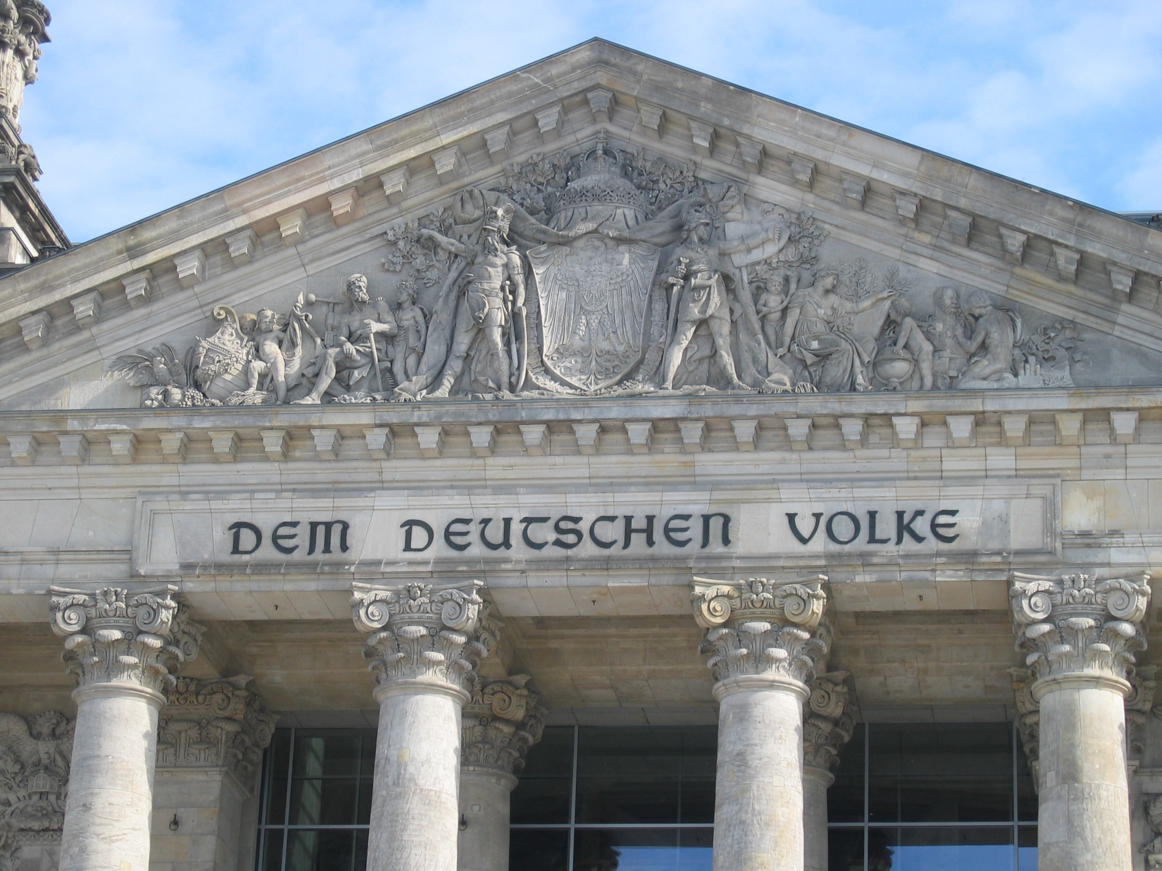 gable of the Reichstag in Berlin